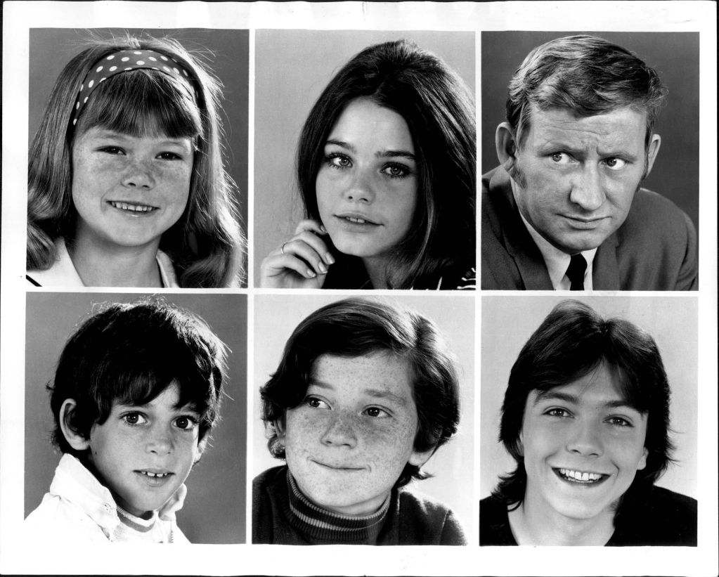 Publicity photo of television actors, (Top row; L–R) Suzanne Crough, Susan Dey, Dave Madden, (Bottom row; L–R) Jeremy Gelbwaks, Danny Bonaduce and David Cassidy promoting the September 25, 1970 premiere of the ABC comedy series The Partridge Family.